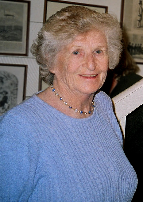 Ronnie Masterson on the set of The Sea Captain, Bastrop, Texas, United States.